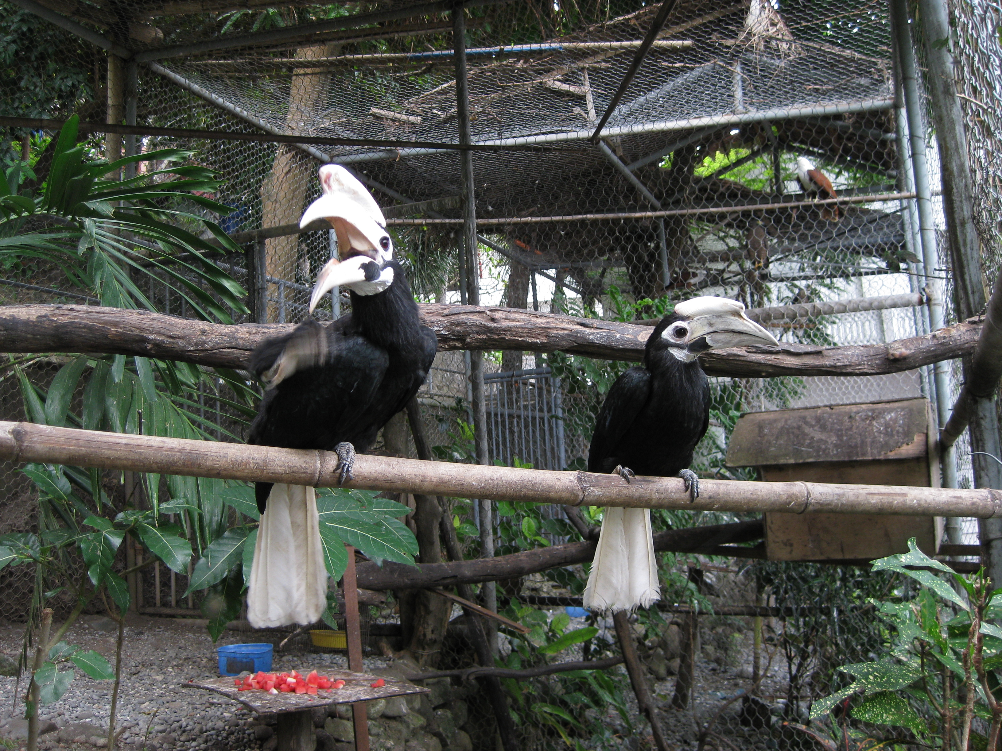 Palawan Hornbill, also known locally as Talusi, photographed at Eagle Point Resort at Batangas, southern Luzon, Philippines.